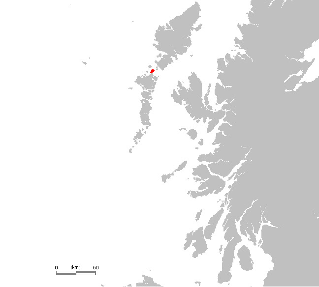 UK Berneray.PNG (Scotland, Hebrides)